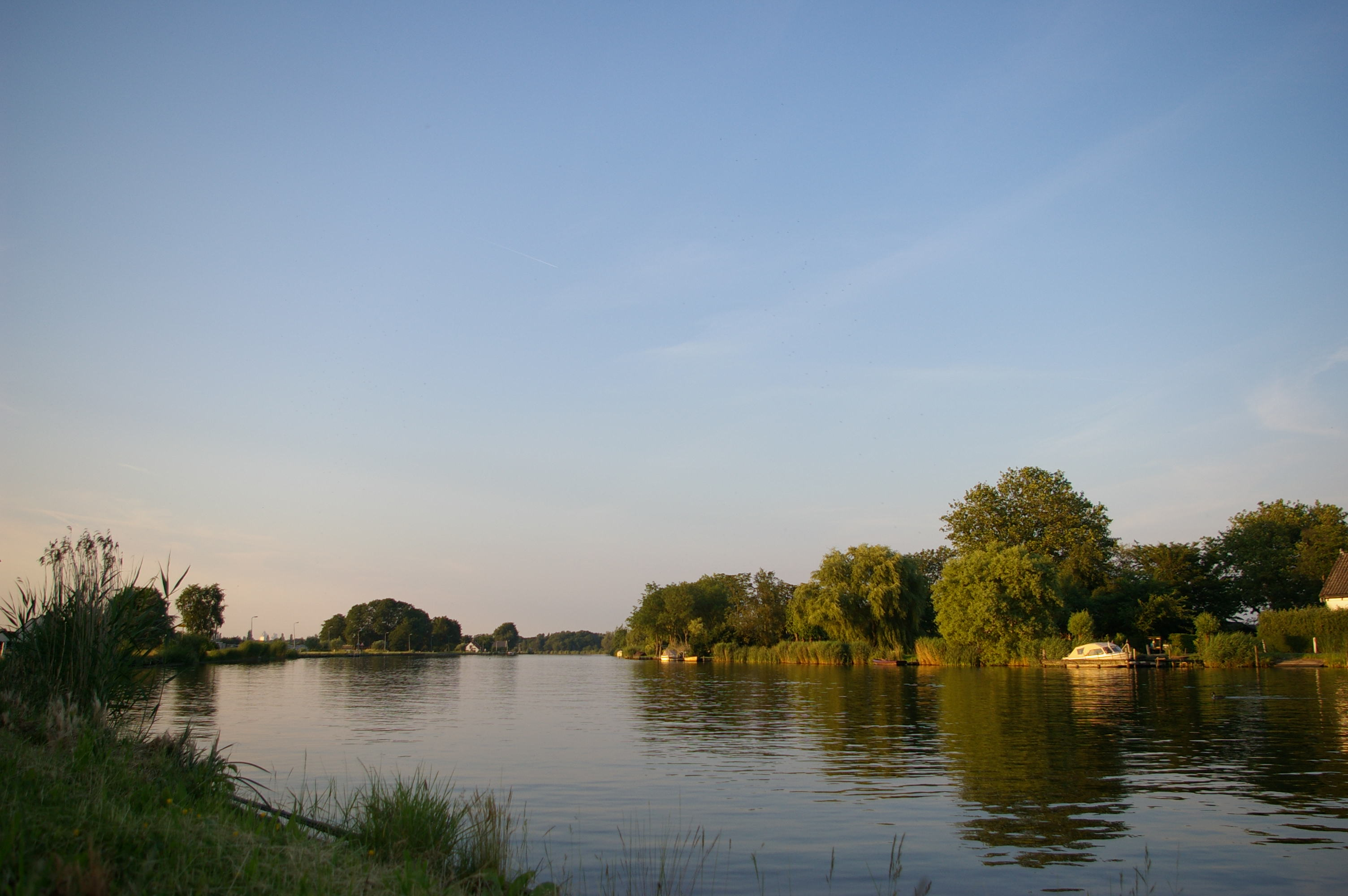 River Amstel near Nes, between Amstelveen and Uithoorn, south of Amsterdam. Used on Amstel (rivier).